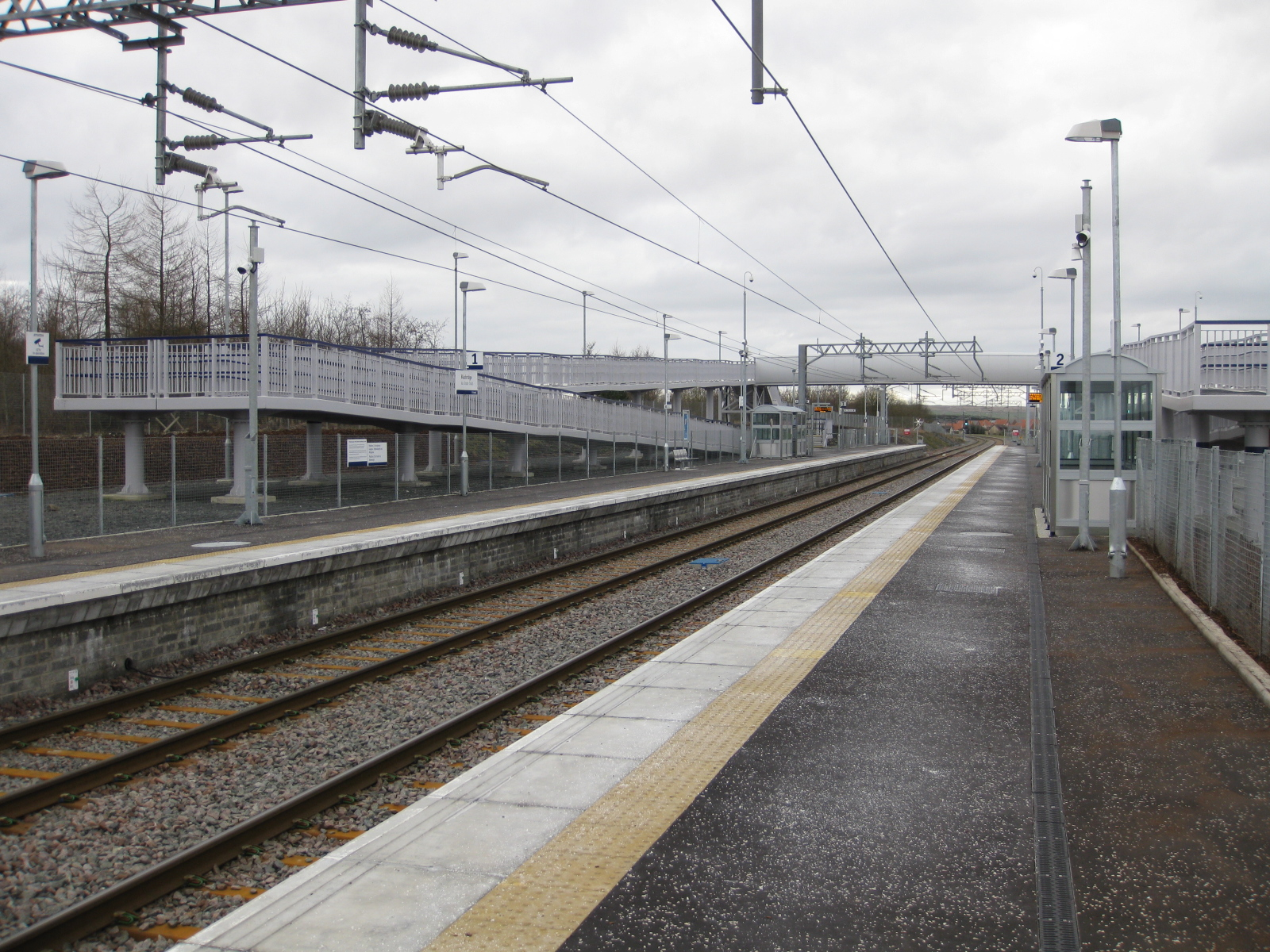 Blackridge railway station in Scotland (looking west), 19 March 2011.